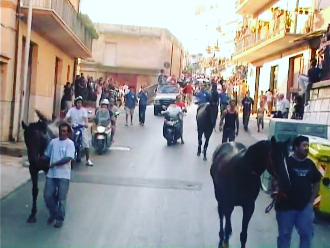 Sfilata storica